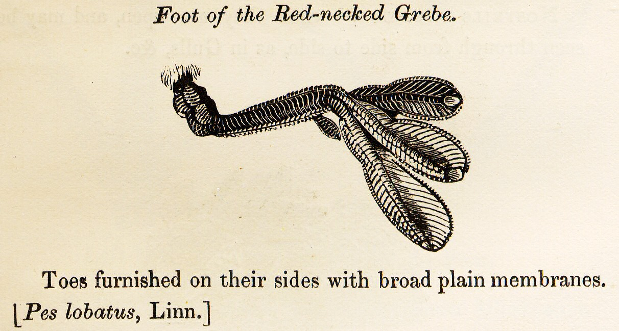 Woodcut by Thomas Bewick in History of British Birds 1797-1804